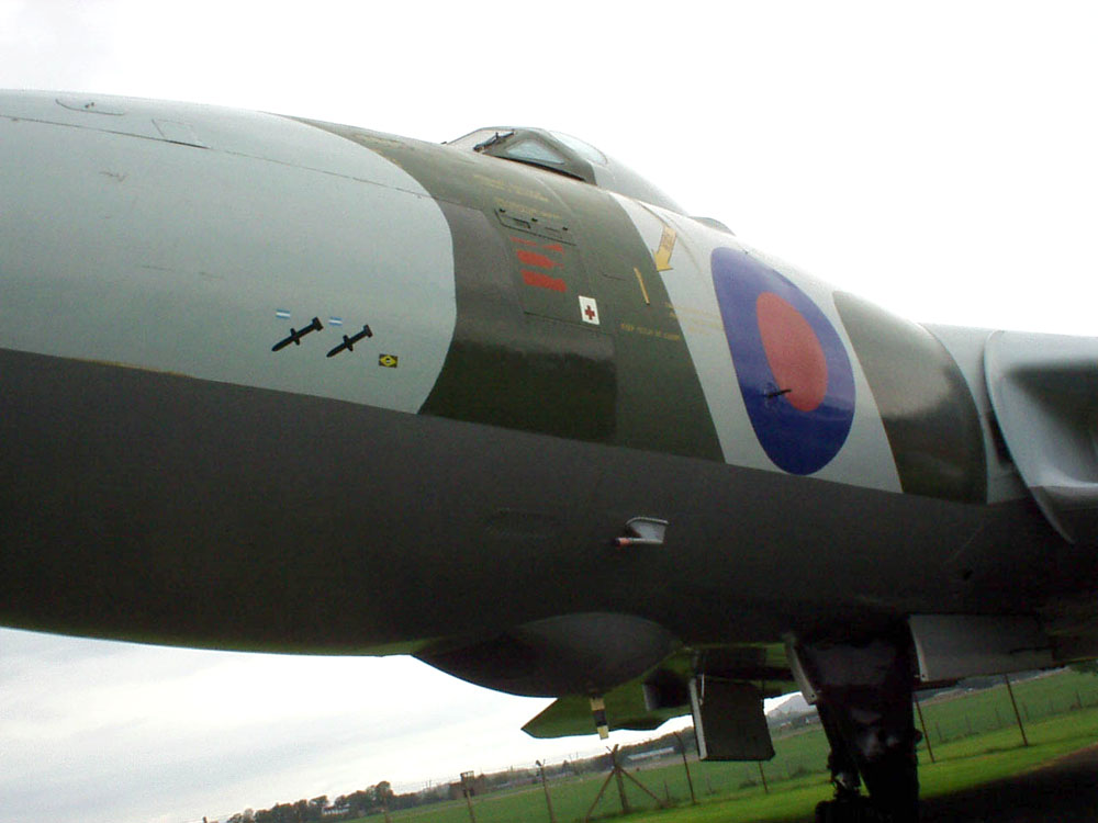 Avro Vulcan XM597 from Operation Black Buck at East Fortune, 2002. Taken and donated by User:Guinnog Showing mission markings from its two Black Buck missions and Brazilian internment.